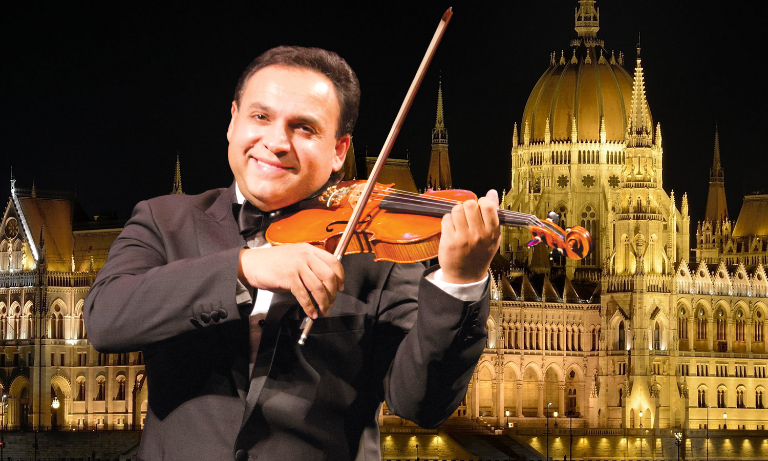 Zoltan Maga